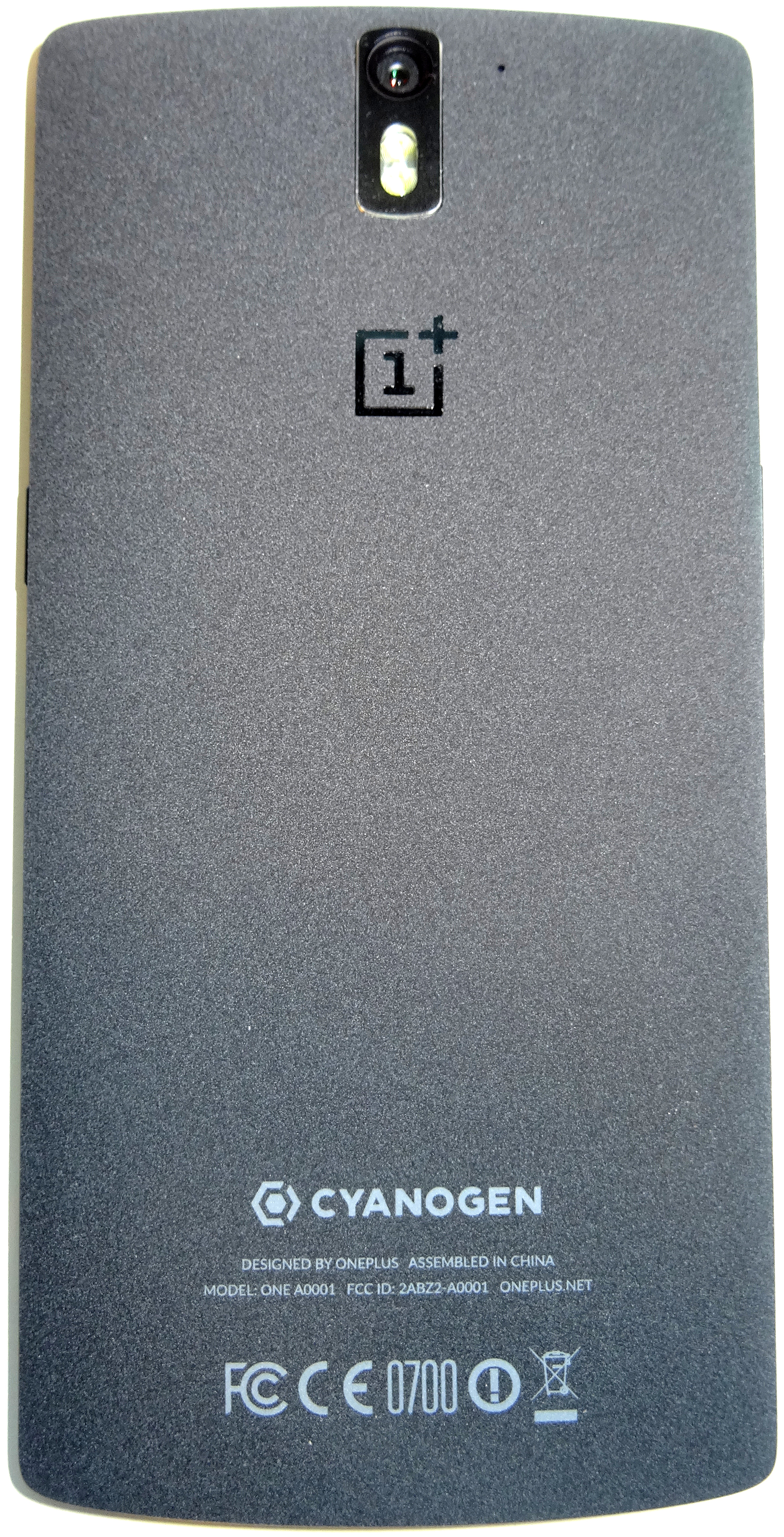 The OnePlus One 64 GB (Sandstone Black)